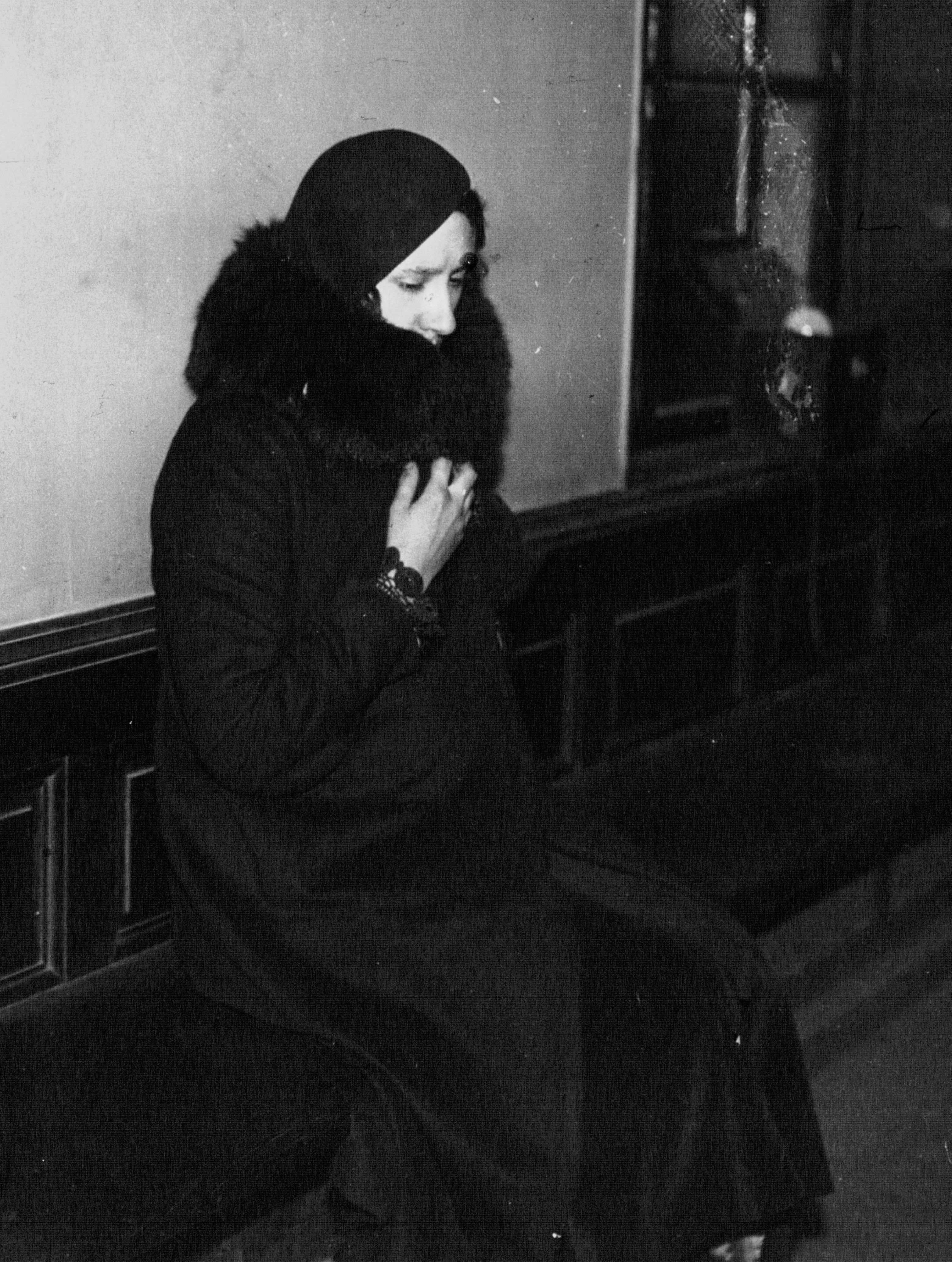 Violette Nozière awaiting the investigating magistrate in 1933.